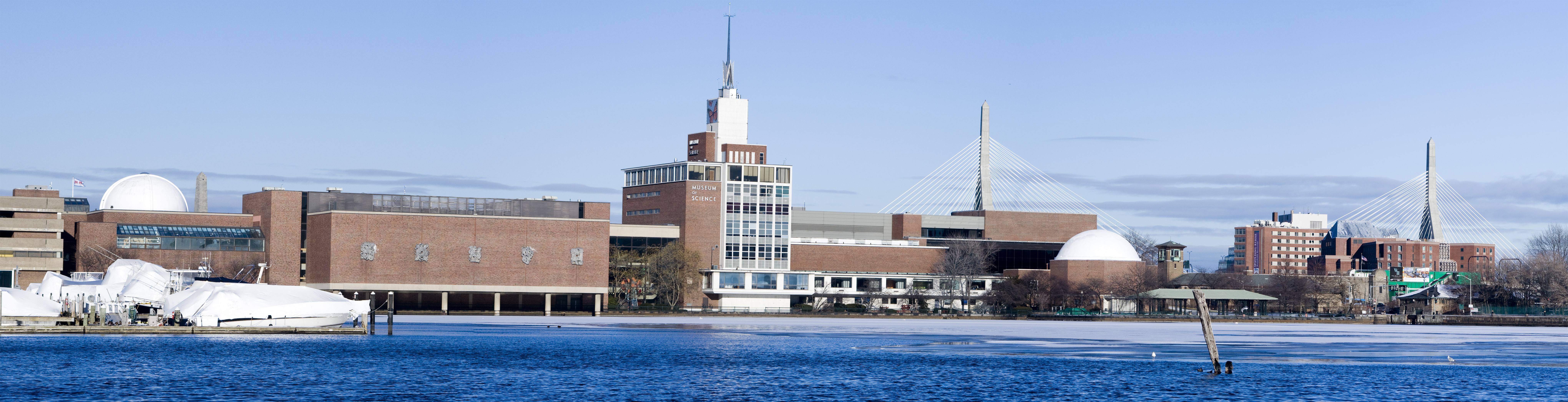 The Museum of Science, Boston. On the Charles River with a view of the Leonard P. Zakim Bridge behind it